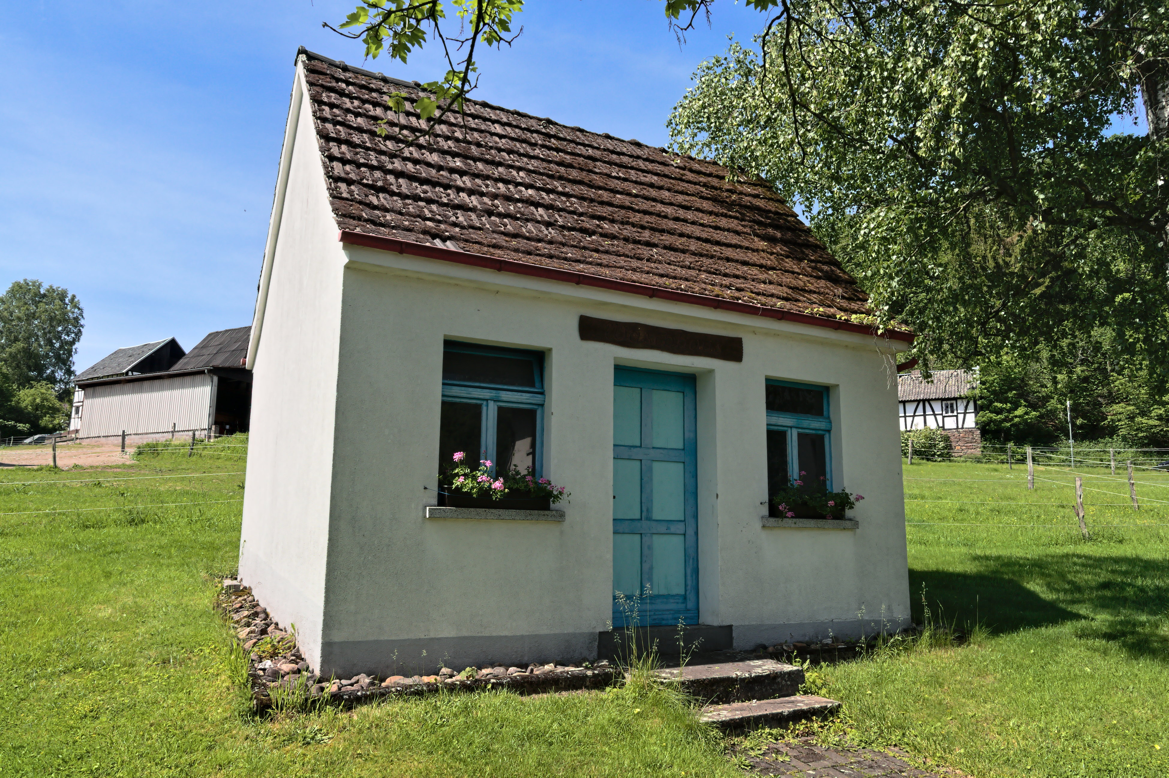 Old washhouse in Helmeroth, Kreis Altenkirchen (Westerwald), Germany at the conjunction Hauptstraße/Im Winkel